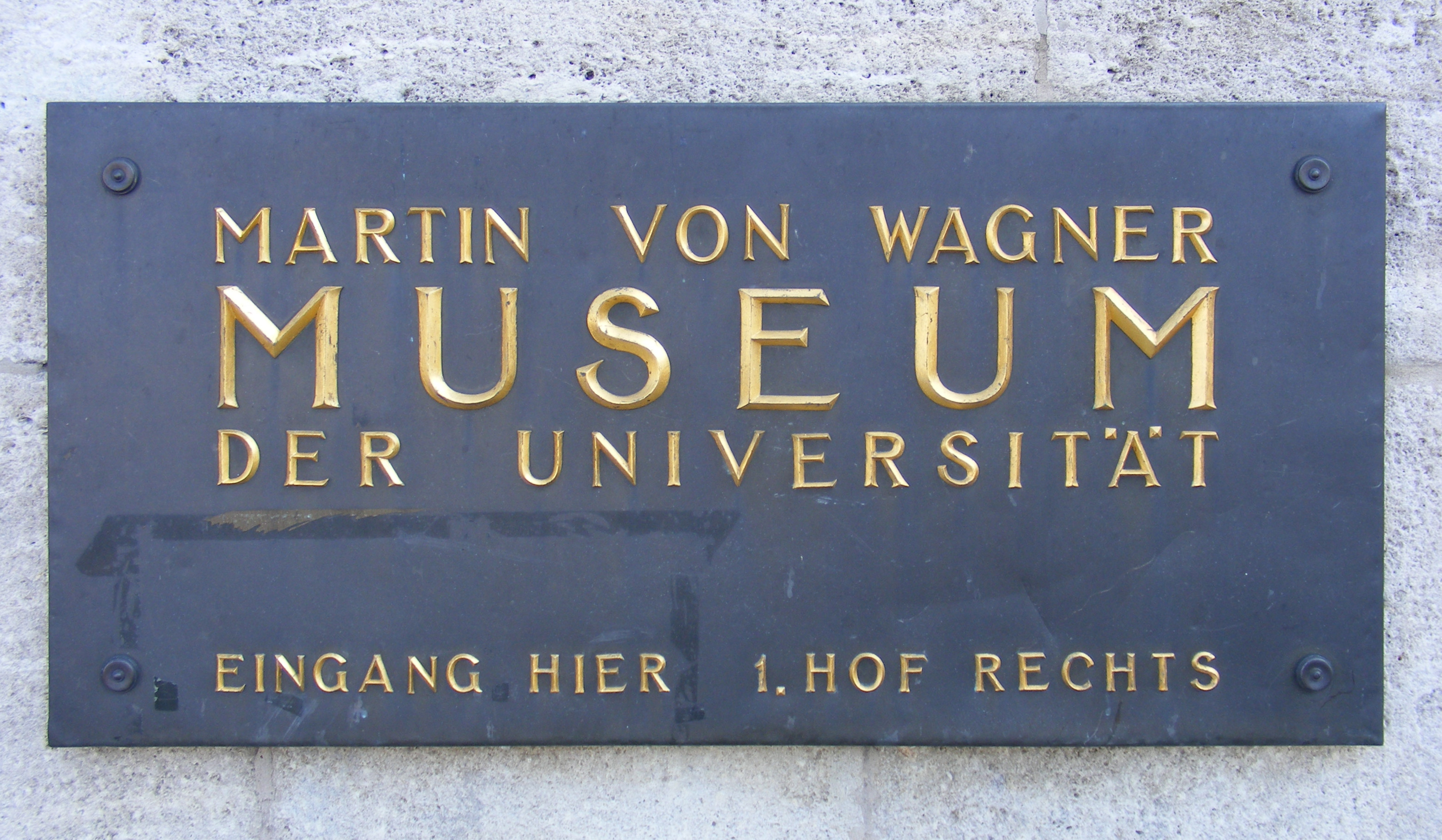 Sign of the Martin von Wagner Museum, University of Würzburg